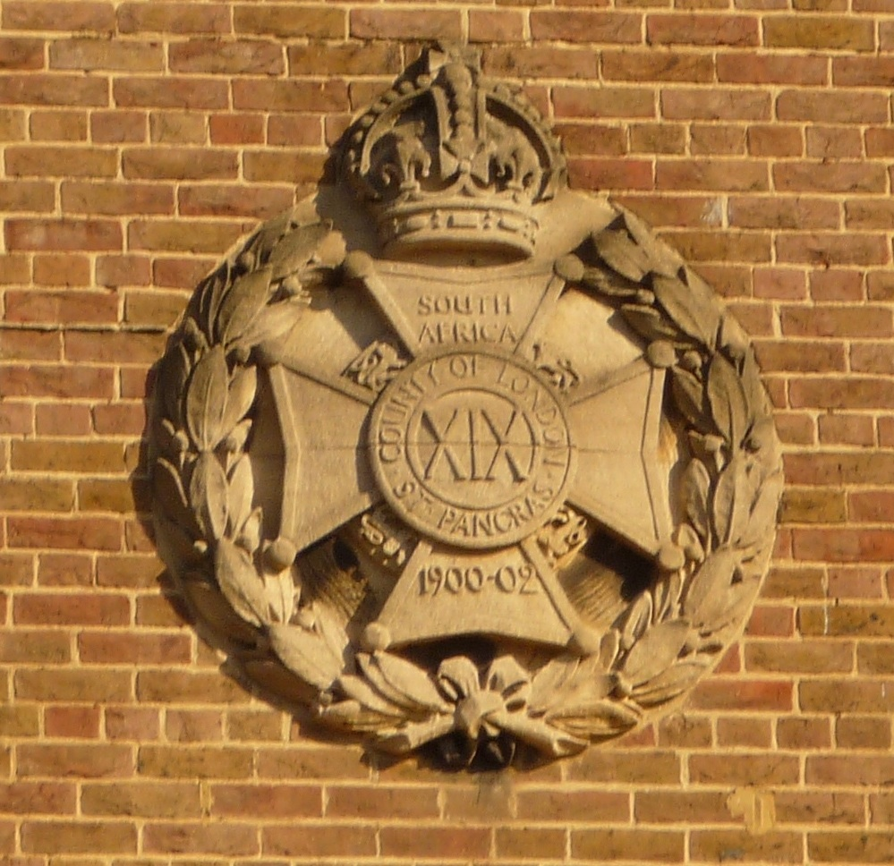 Stone carving on old regimental drill hall in Albany Street, London.